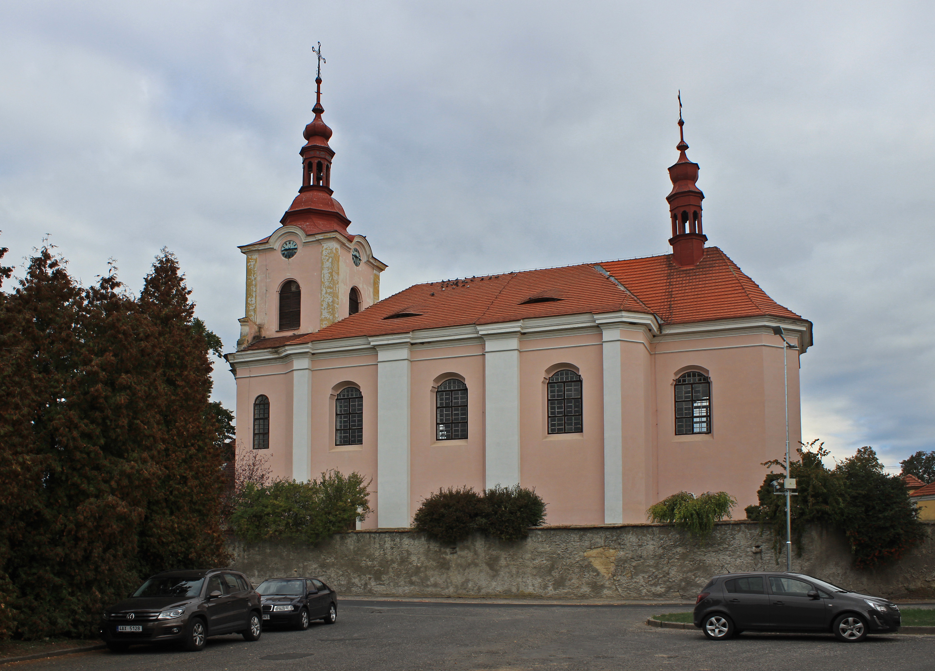 Catholic church in Mělnické Vtelno, Czech Republic.